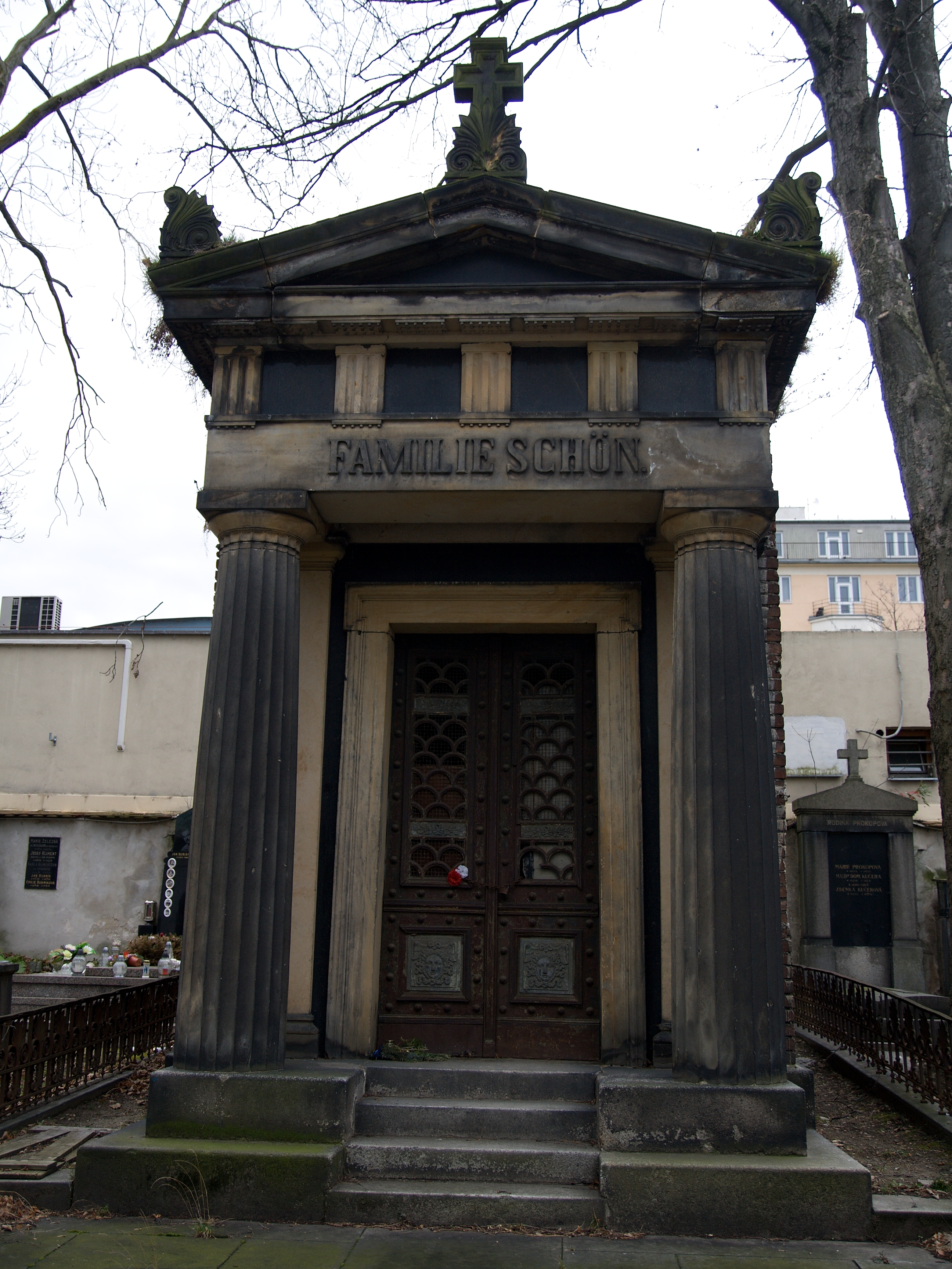 Olšanské hřbitovy Cemetery - Grave of František Schon Family